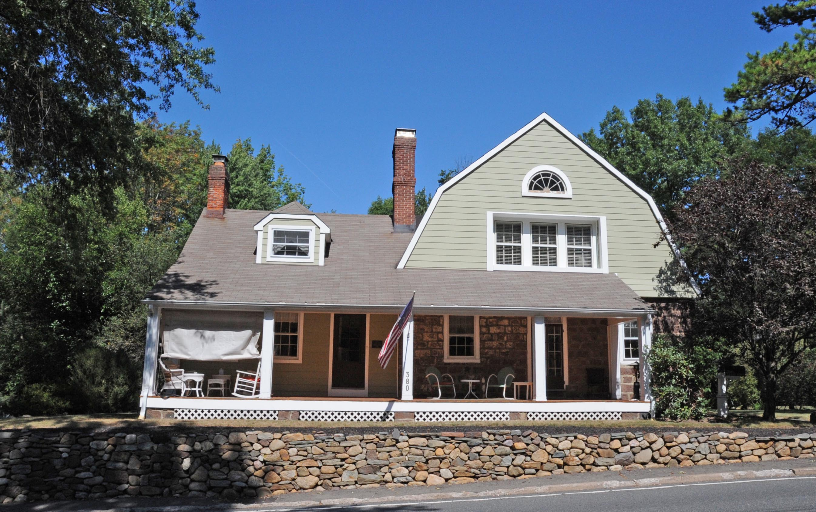 THE DUTCH BARN STYLE ROOF WAS NOT THE ORIGINAL ROOF. THE CONSTRUCTION DATE IS NOT KNOWN, BUT J. VAN BLARCOM IS LISTED AS THE OWNER ON THE 1861 MAP OF THE AREA. JAPHET JARDINE IS LISTED AS THE OWNER IN 1861.